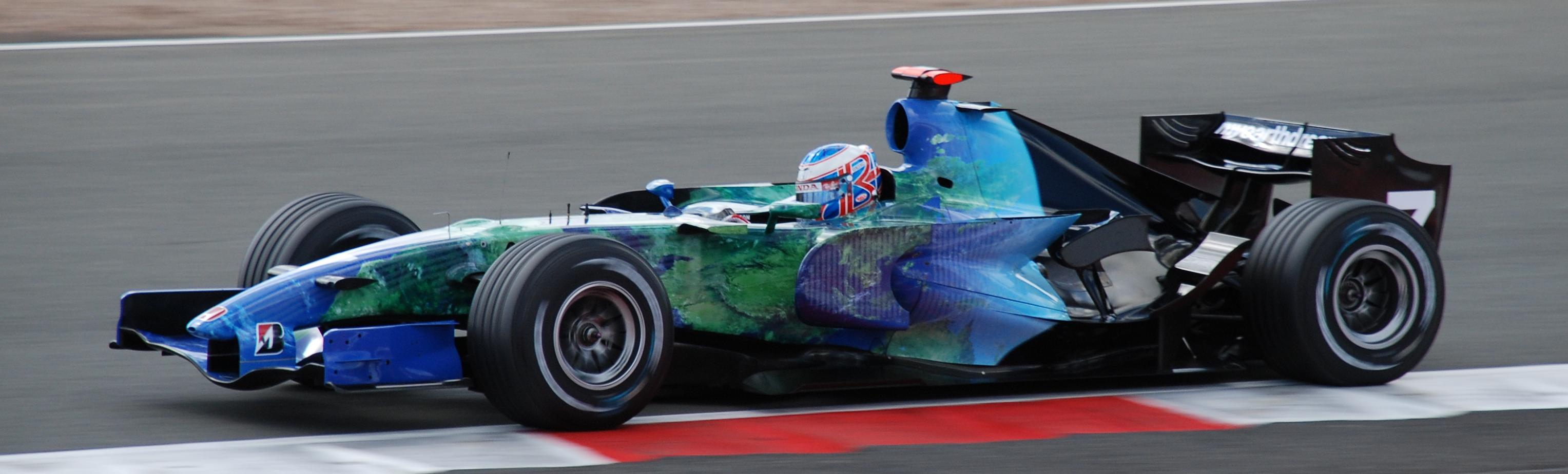 Jenson Button driving for Honda F1 at the 2007 British Grand Prix.